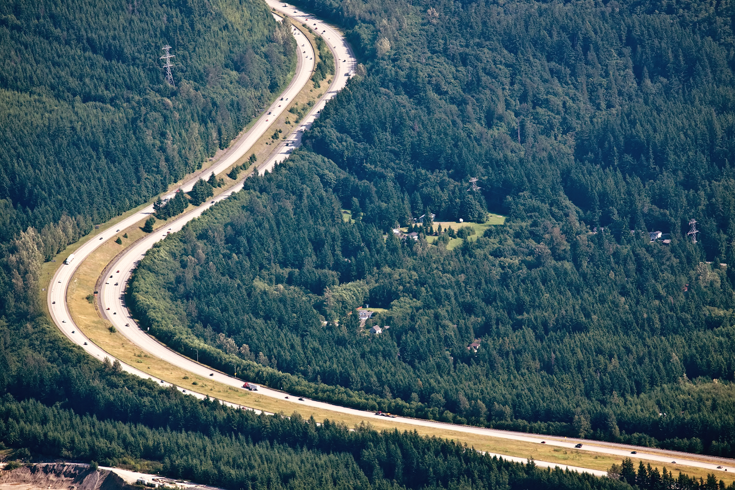 I-90 as seen from Mount Si